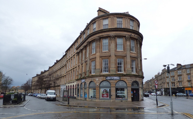 Minerva Street